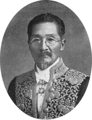 Ichirōichi Tamamushi, 8th director of the Second Higher School.